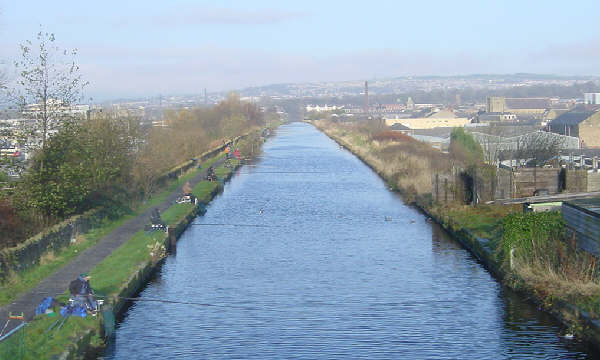 Burnley Embankment. Burnley Embankment, almost a mile long and up to sixty feet high, carries the Leeds and Liverpool Canal through Burnley. The bus station and town centre can be seen to the left.